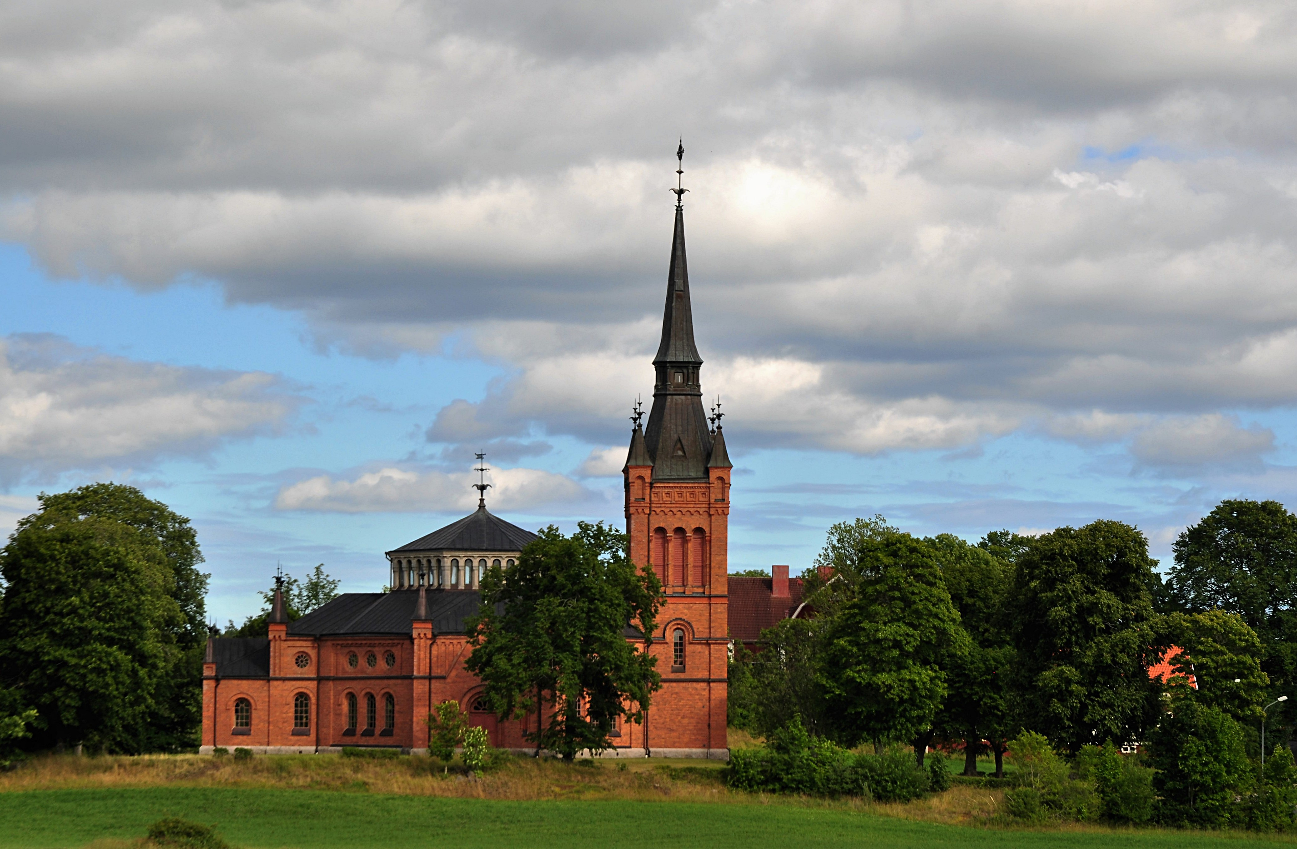 The church of Gladhammar, in the county of Kalmar; Sweden.